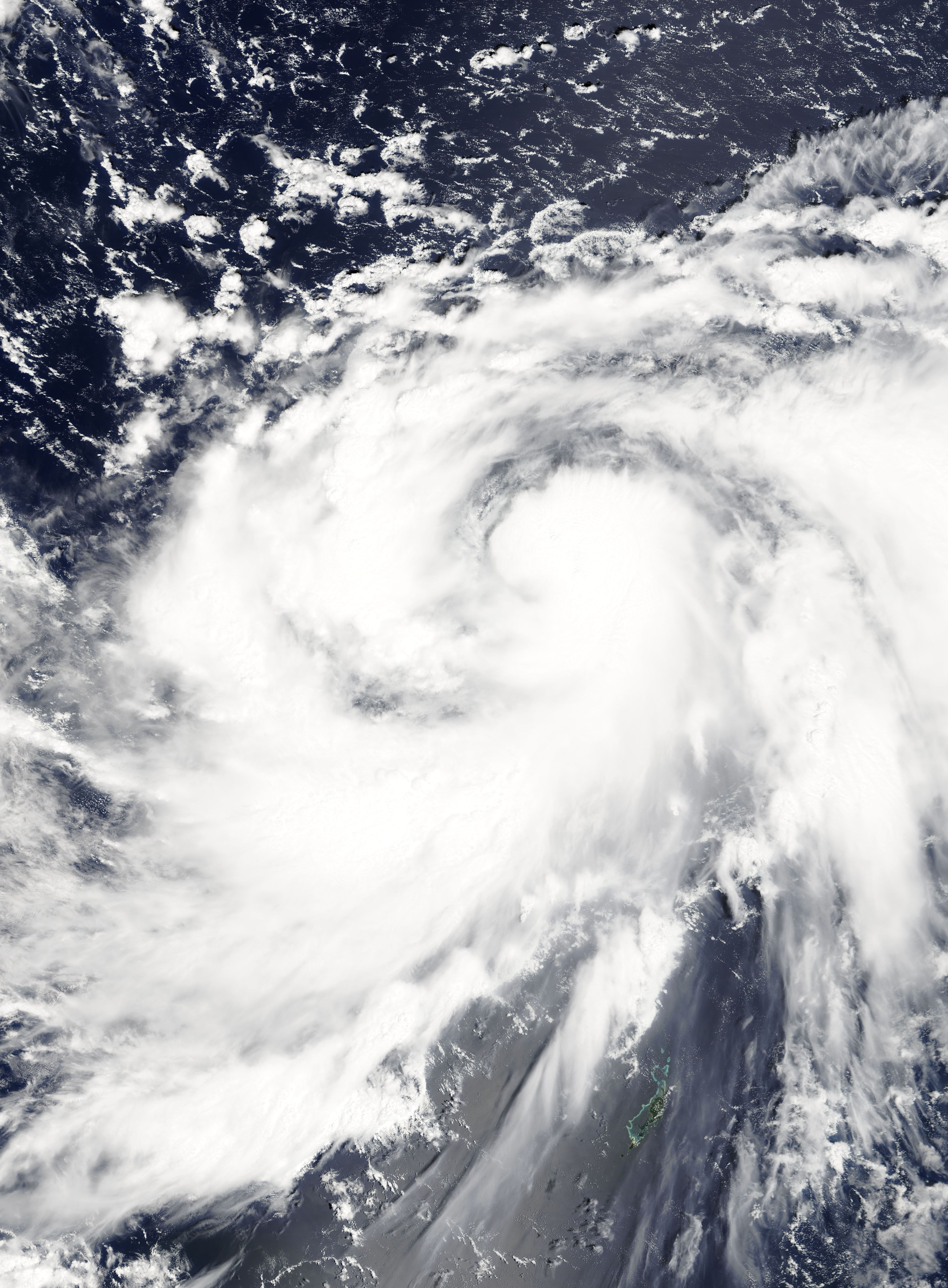 Typhoon Jangmi (2008) on September 25, 2008.